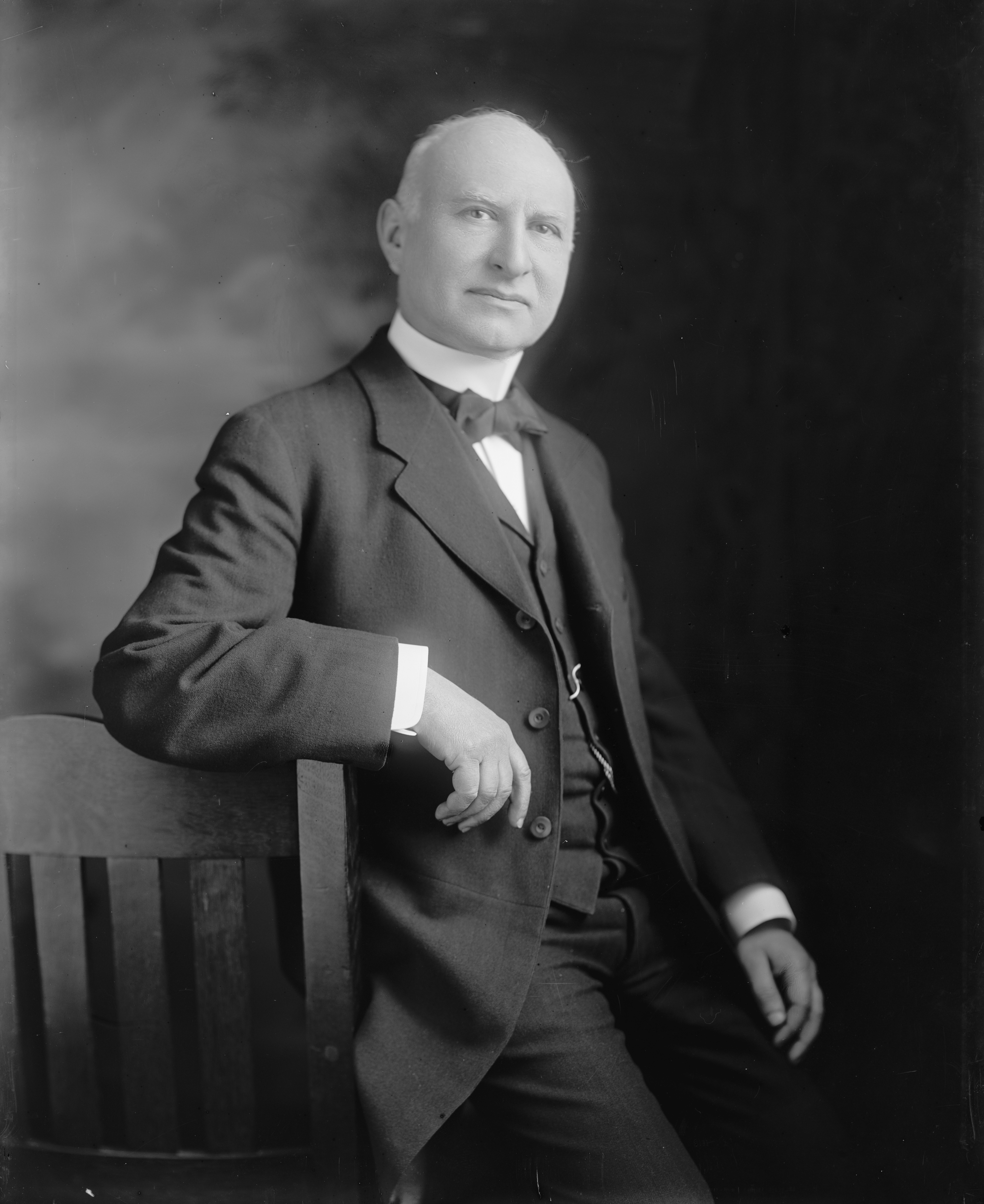 Henry M. Goldfogle, Congressman and judge from New York.